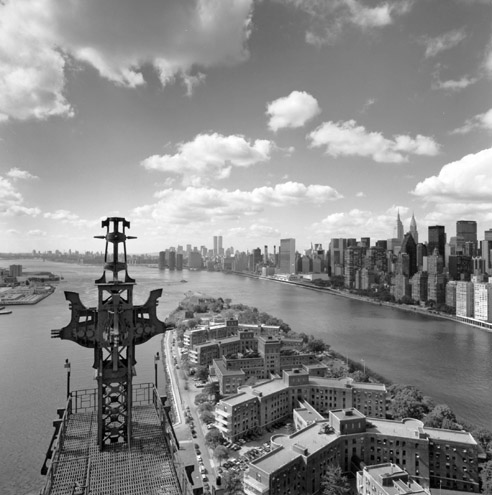 Queensboro Bridge, southwest view of the tower crown and the Manhattan skyline behind it